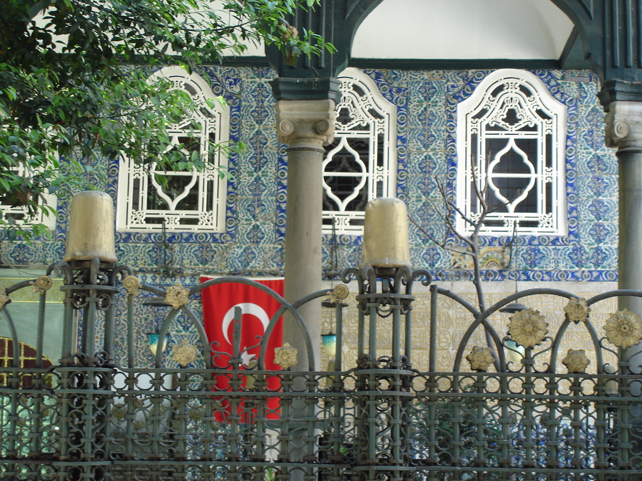 Istanbul - Inside view of the sanctuary containing the türbe (funerary mausoleum) and the mosque in Eyüp. - Picture by: Giovanni Dall'Orto, May 30 2006.